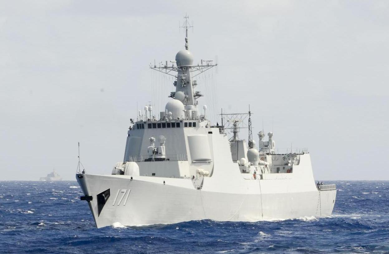 A boarding team from the People's Liberation Army (Navy) Haikou (DD 171) makes way toward the U.S. Coast Guard Cutter Waesche (WMSL 751) July, 16, 2014, during a Maritime Interdiction Operations Exercise (MIOEX) as part of Rim of the Pacific (RIMPAC) Exercise 2014.